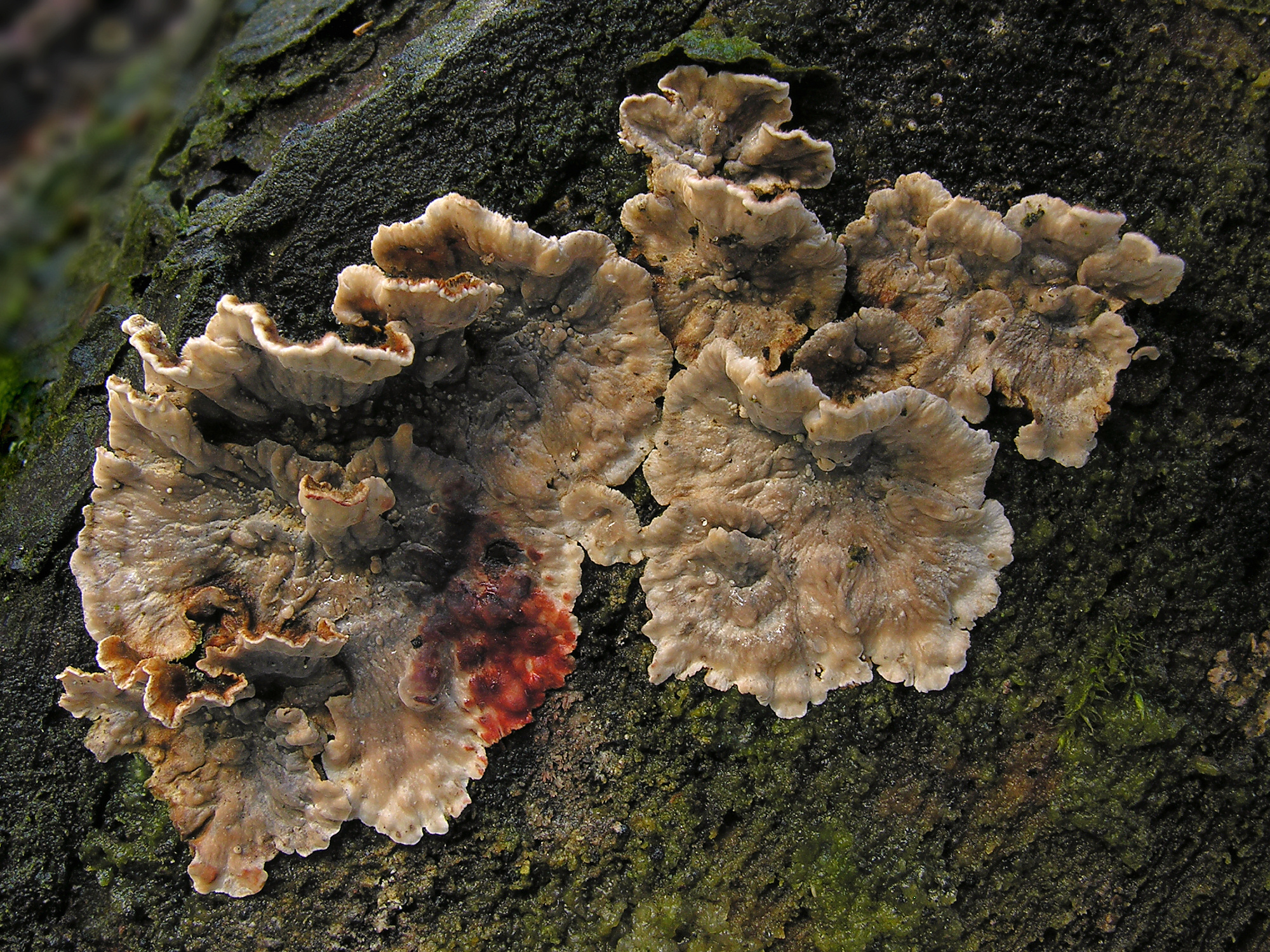 Bleeding Conifer Crust (Stereum sanguinolentum) on Norway Spruce (Picea abies)